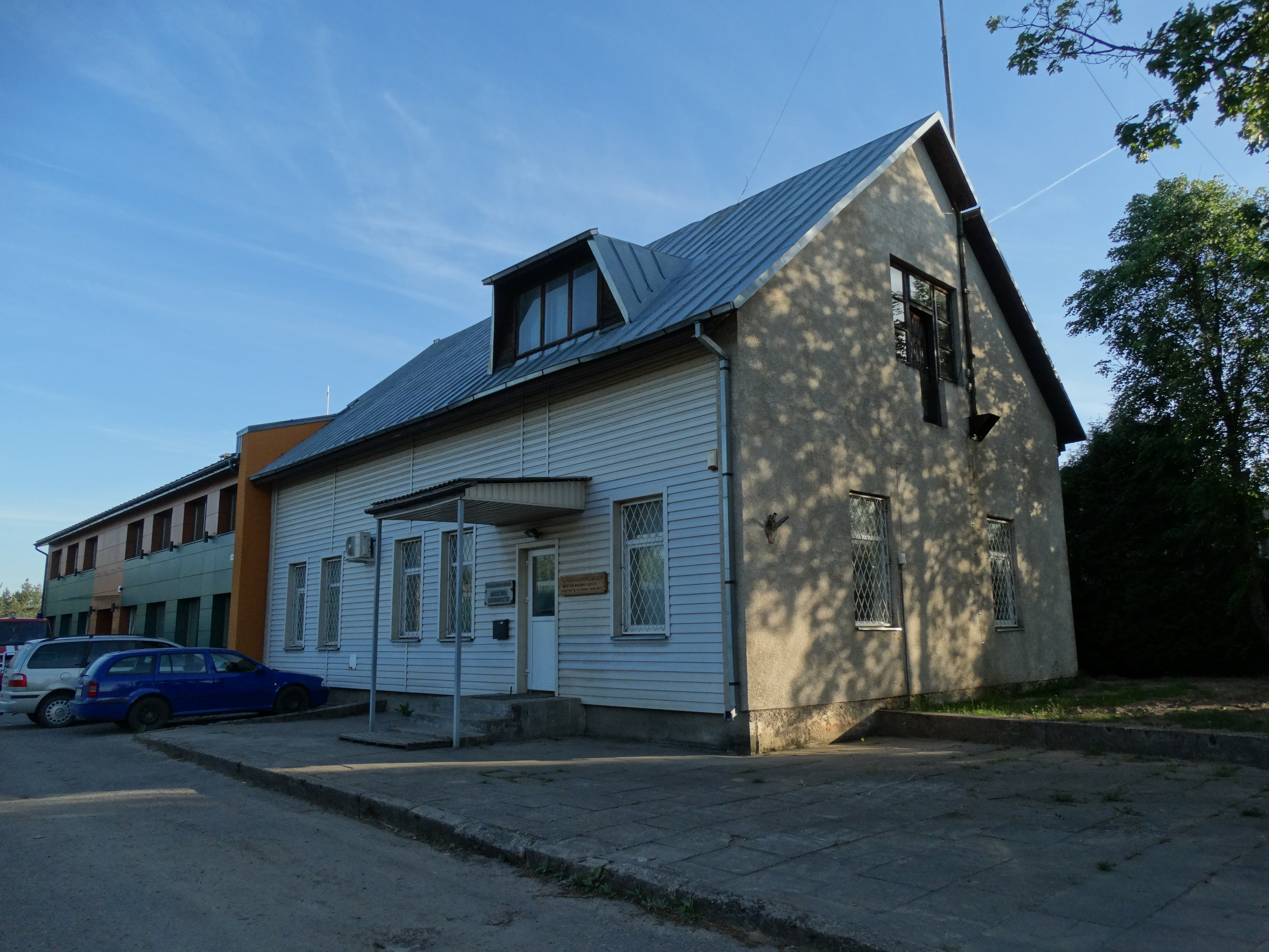 Forest enterprise, Mickūnai, Vilnius District, Lithuania